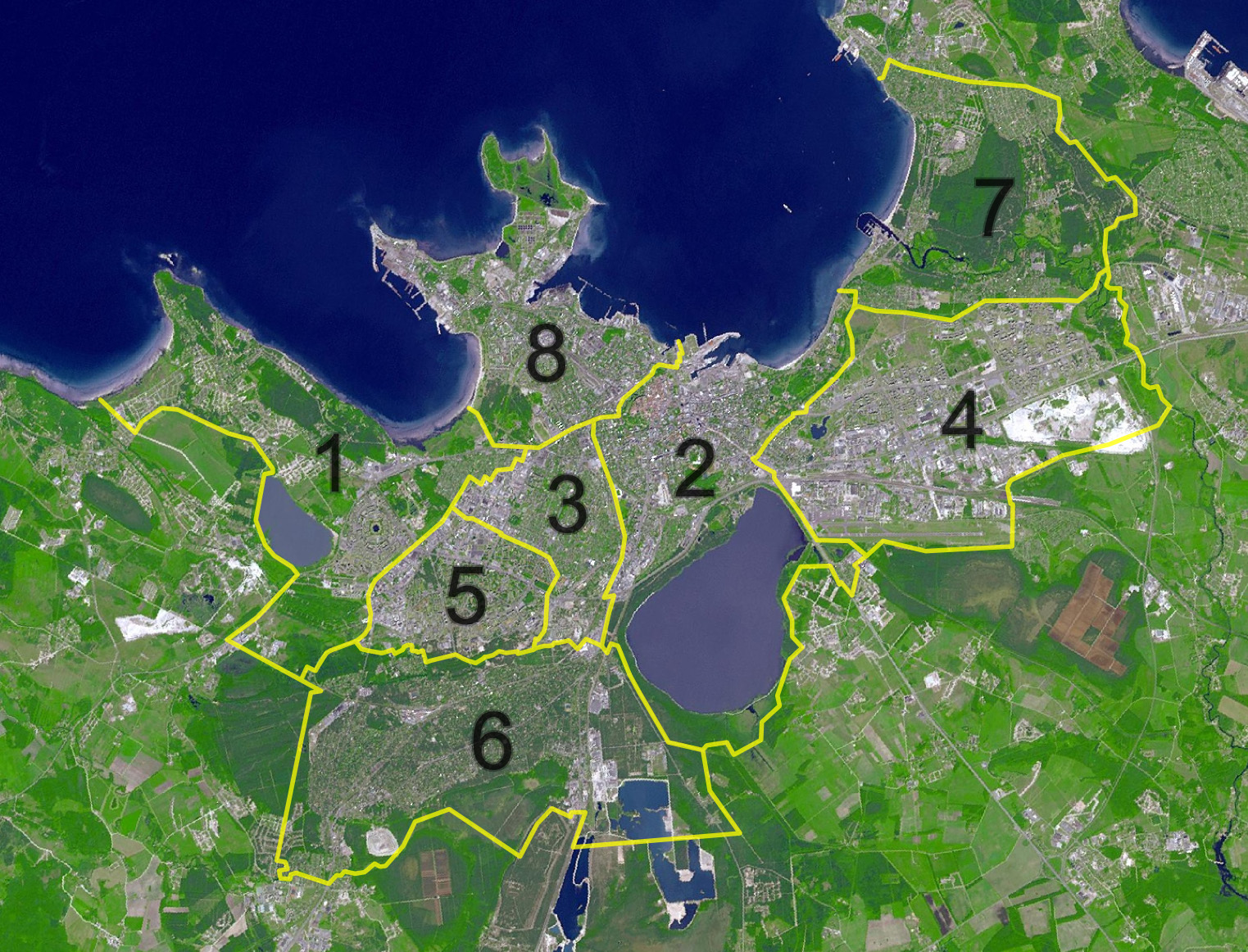 Districts of Tallinn as of 2009. 1 - Haabersti, 2 - Kesklinn, 3 - Kristiine, 4 - Lasnamäe, 5 - Mustamäe, 6 - Nõmme, 7 - Pirita, 8 - Põhja-Tallinn